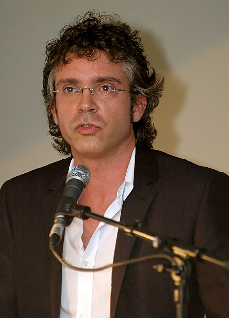 Brannon Braga at a lecture in Reykjavík